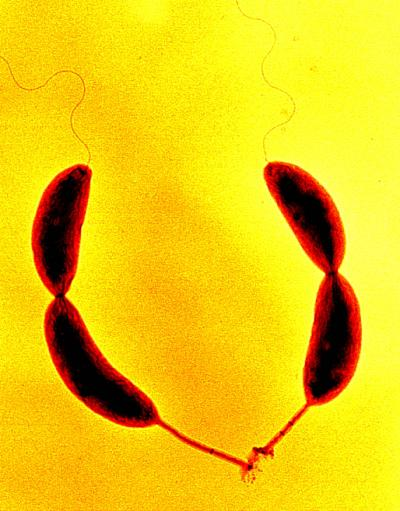 Caulobacter crescentus This image is a work of a United States Department of Energy (or predecessor organization) employee, taken or made as part of that person's official duties. As a work of the U.S. federal government, the image is in the public domain. Please note that national laboratories operate under varying licences and some are not free. Check the site policies of any national lab before crediting it with this tag.